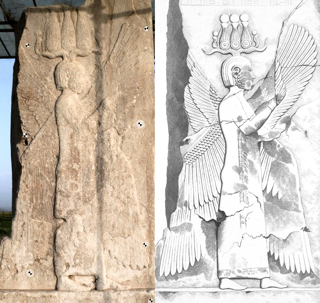 Relief of Cyrus, Pasargadae